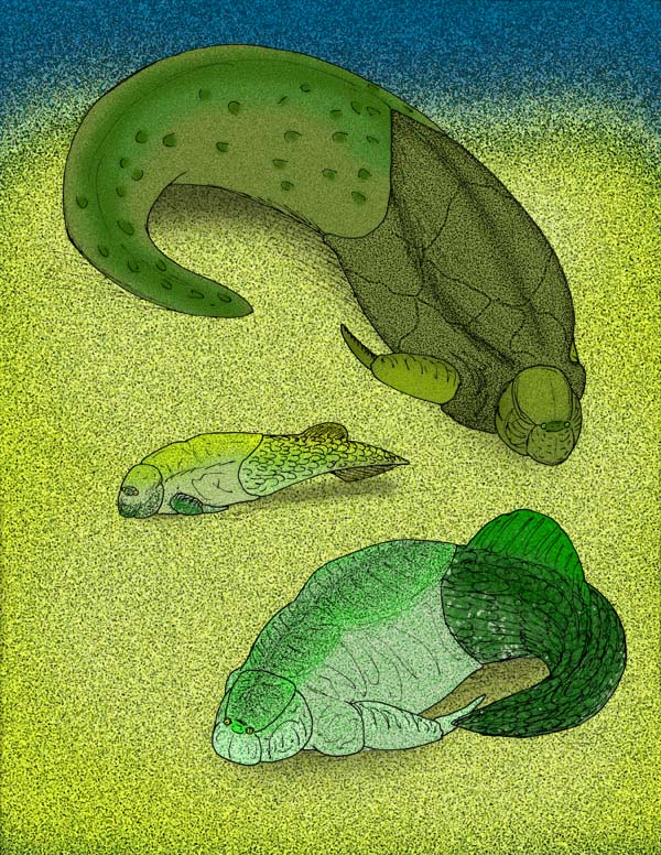 Various antiarch placoderms from the Middle Devonian of Northern Vietnam. At top is Chuchinolepis dongmoensis, followed by Vanchienolepis langsonensis. At bottom is Yunnanolepis chii.